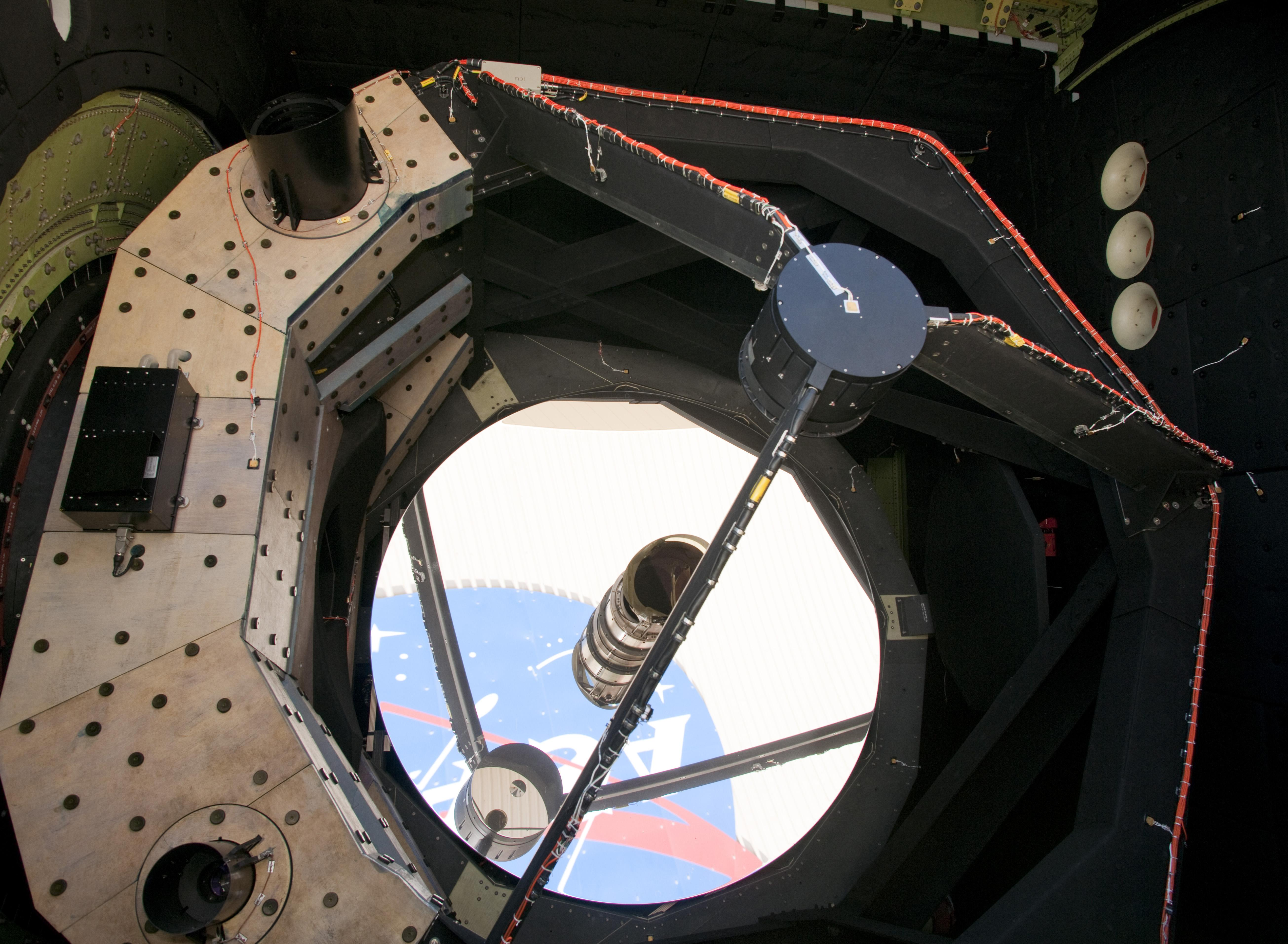 The NASA logo on Bldg. 703 at the Dryden Aircraft Operations Facility in Palmdale, Calif., is reflected in the 2.5-meter primary mirror of the SOFIA observatory's telescope.